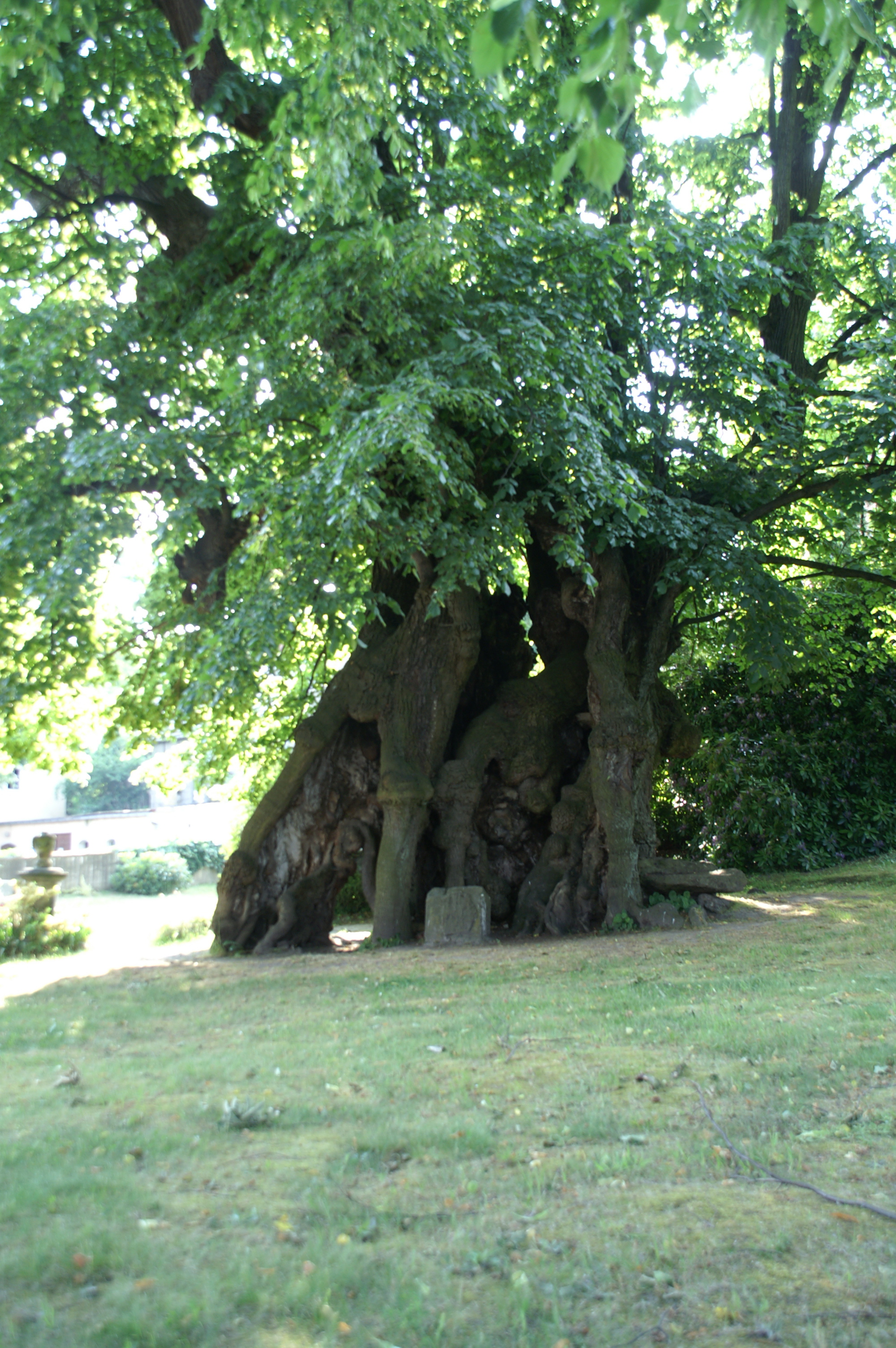 1000 years old Tilia platyphyllos in Collm, Germany